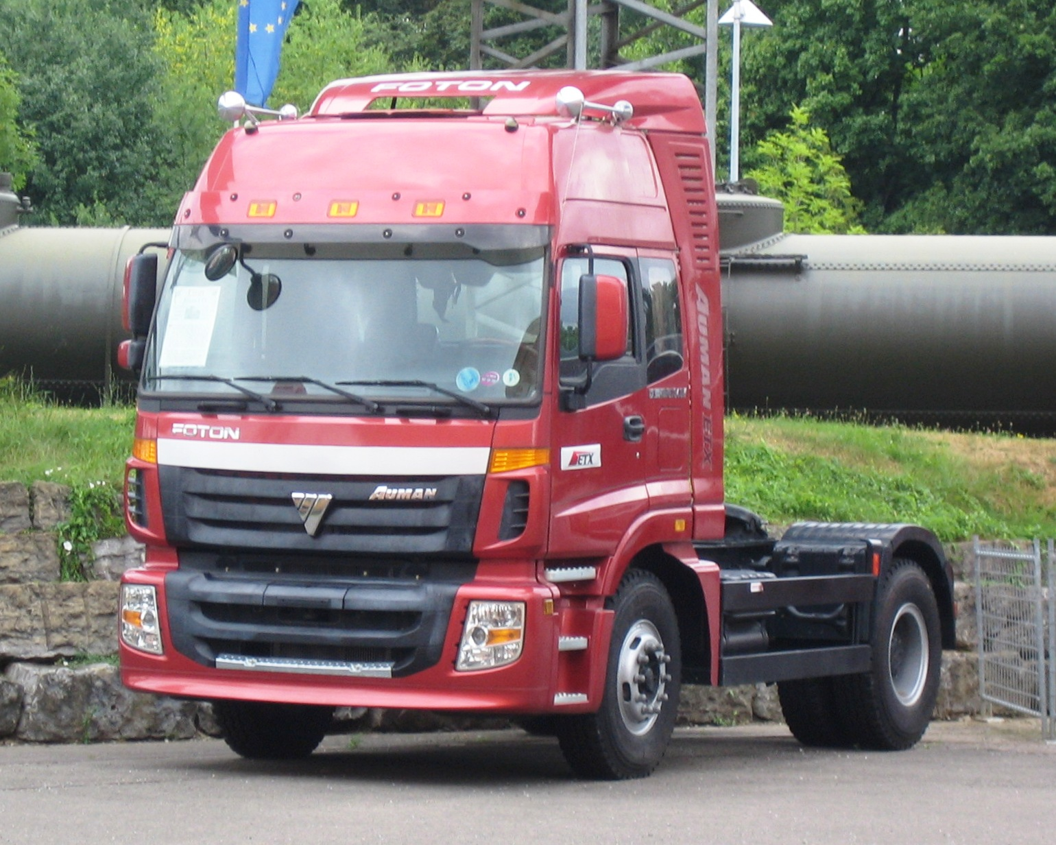 Foton Truck cab at Speyer. This is the second photo of this vehicle uploaded to Wikipedia. I think the lighting is better this time round, now that someone has moved the airplane under which the truck was sheltering.